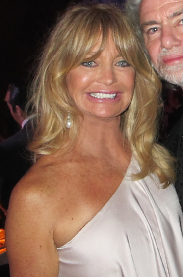 Goldie Hawn at the Cinema Against AIDS 2011.